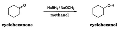 Cyclohexanol synthesis from Cyclohexanone